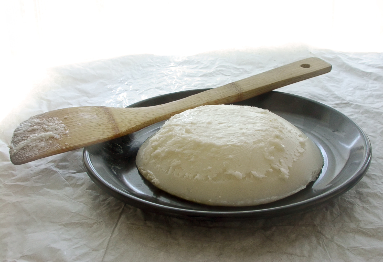 Homemade lard, wet-rendered from pork fatback. February 18, 2007.